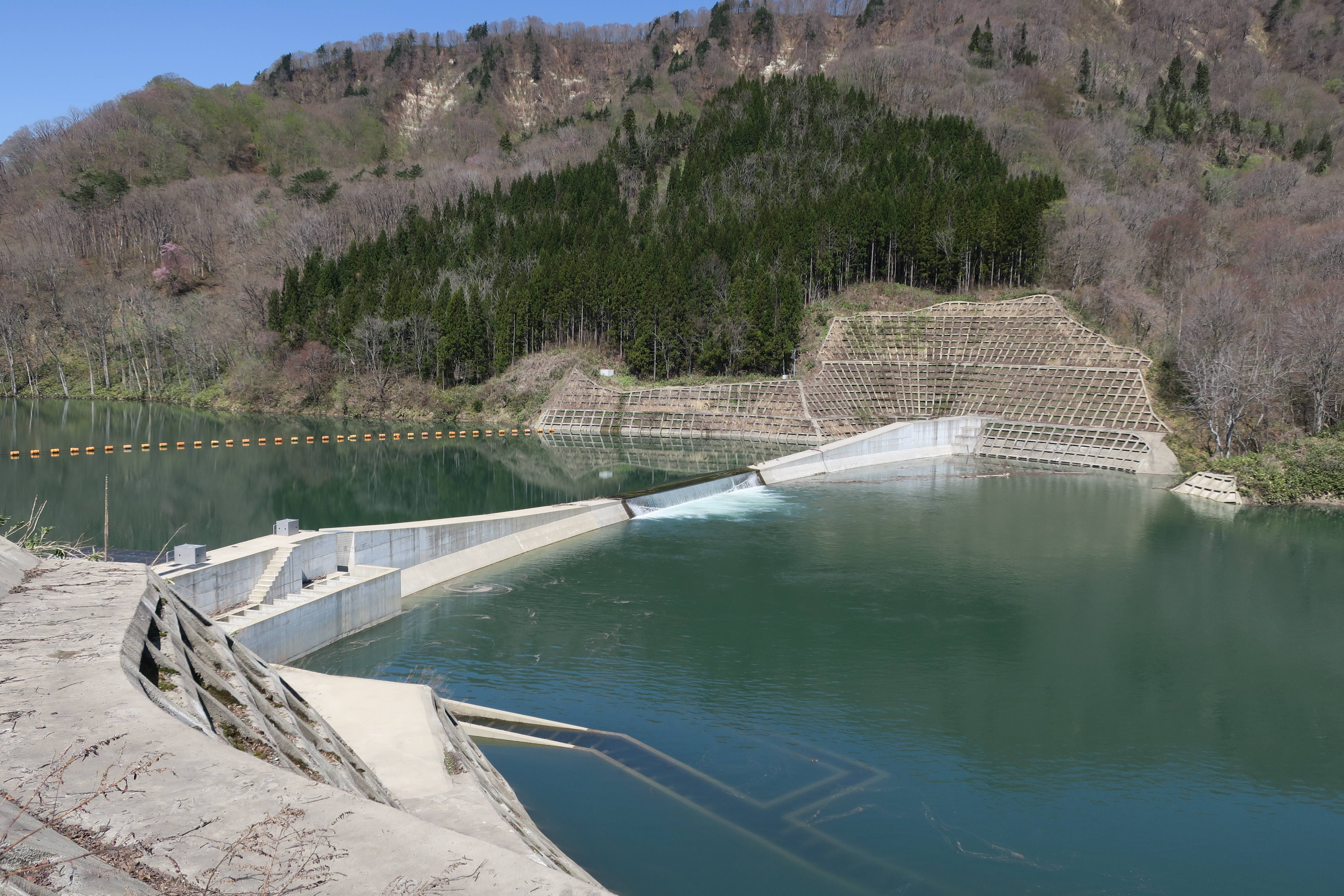 Tsugaru Dam (Nishimeya, Aomori).